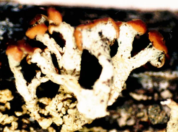 Cladonia botrytes (K.G. Hagen) Willd., 1787 (photograph of a herbarium specimen taken through a dissecting microscope (x28) showing podetia topped with pale beige apothecia) Growing on old wood in a sunny exposure along the N side of the Montreal River, E side of Highway 17, Ontario, Canada; collected and identified by Richard E. Riefner (No. 81-501, 23 Jul 1981); specimen is now in the Lichen Herbarium of the New York Botanical Garden.